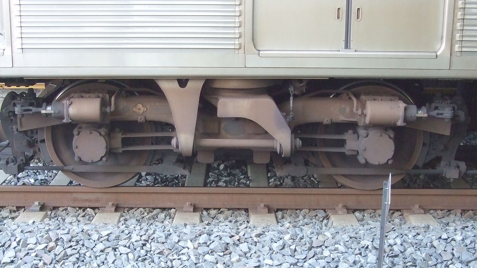 Sumitomo truck typeFS013. The truck of Keisei Electric Railway type3600. Place:at Keisei Tsudanuma Station, Narashino, Chiba, Japan